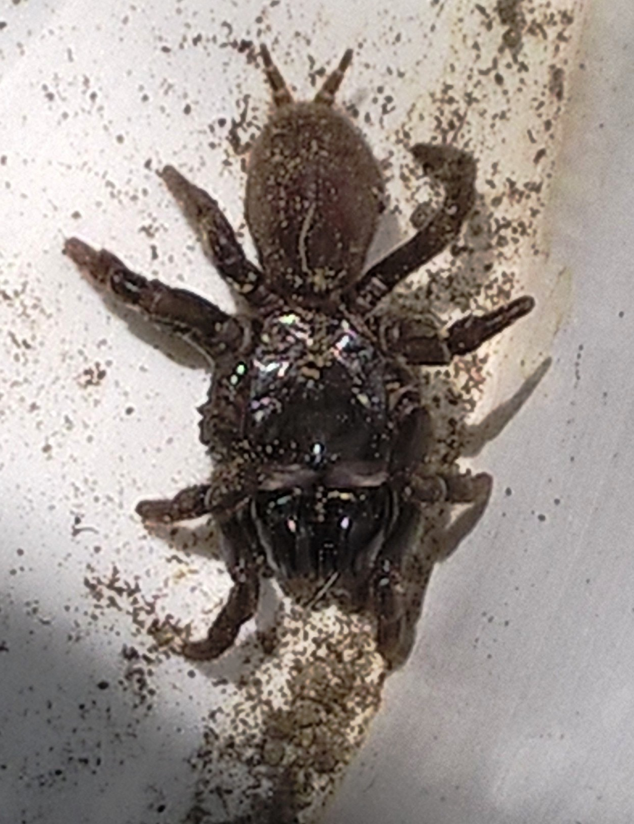 atypus muralis found in South Tyrol